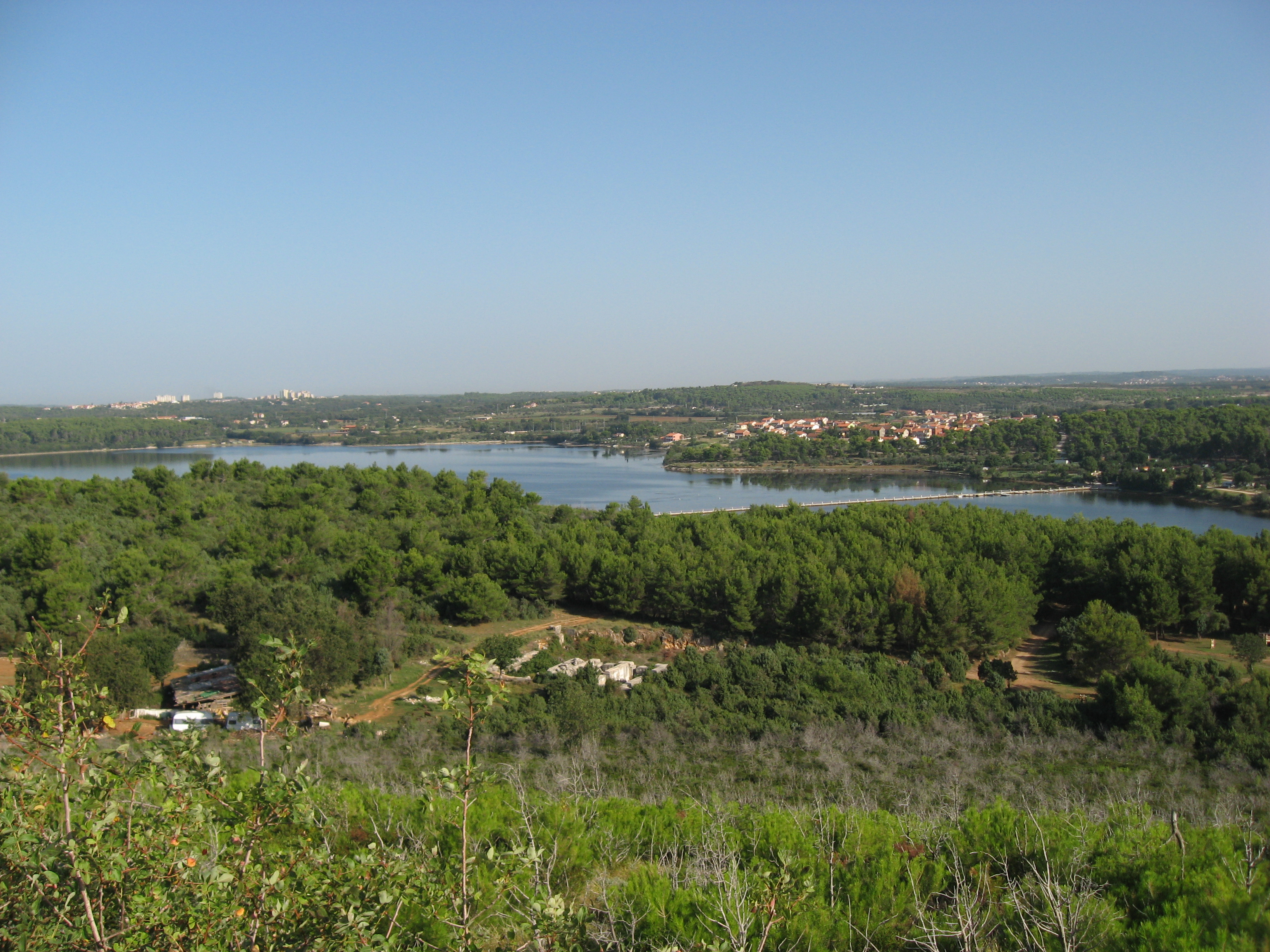 View from the southeast over the bay of Pomer (Medulin), in the background the city of Pula, Istria